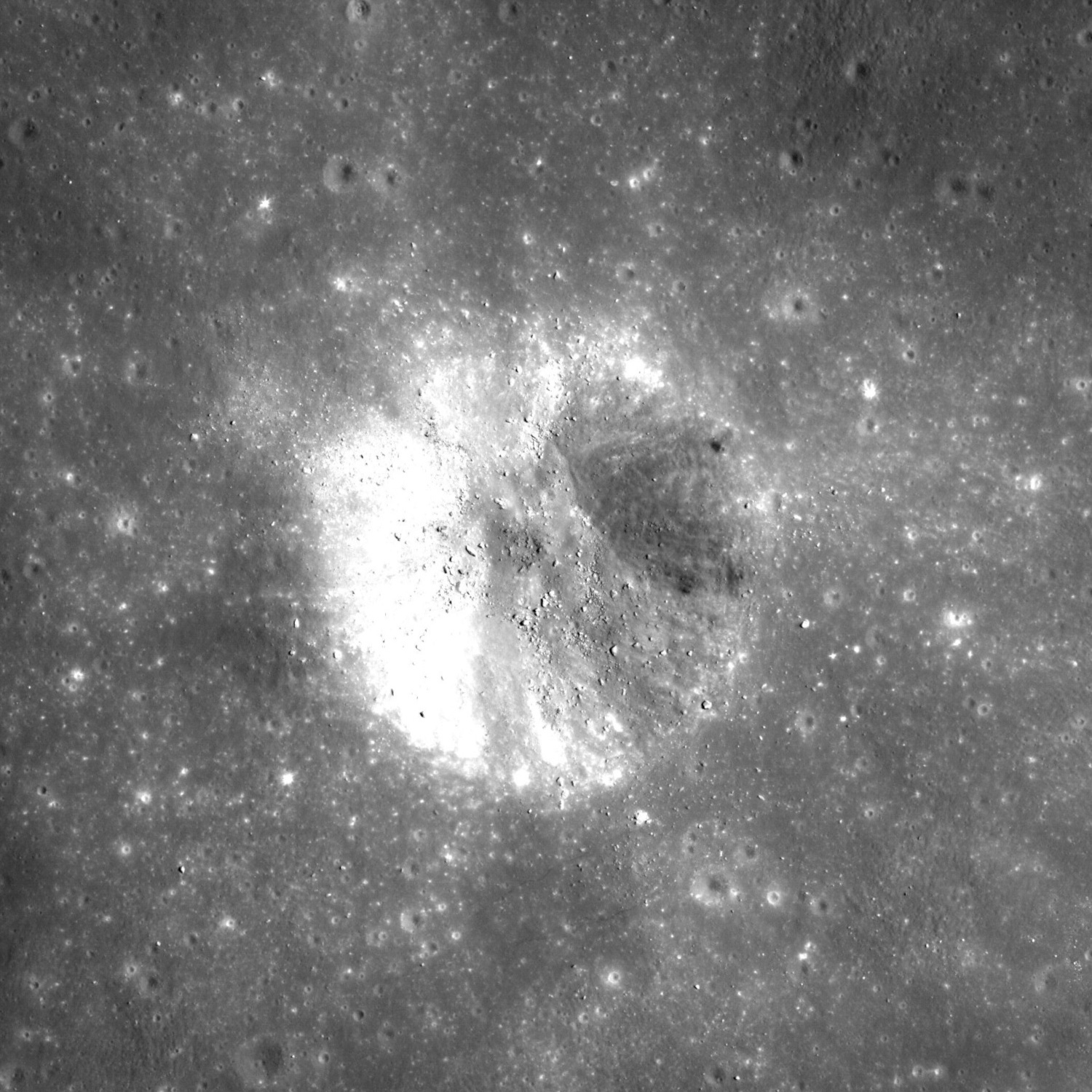 Cone crater, on the moon, visited by the astronauts of Apollo 14. Some of the footprints of the astronauts are visible as faint lines south of the crater rim. The image was acquired at a moderate angle (23.17) so the image was stretched vertically to produce a more accurate map-like representation. The image is approximately 825 m wide.